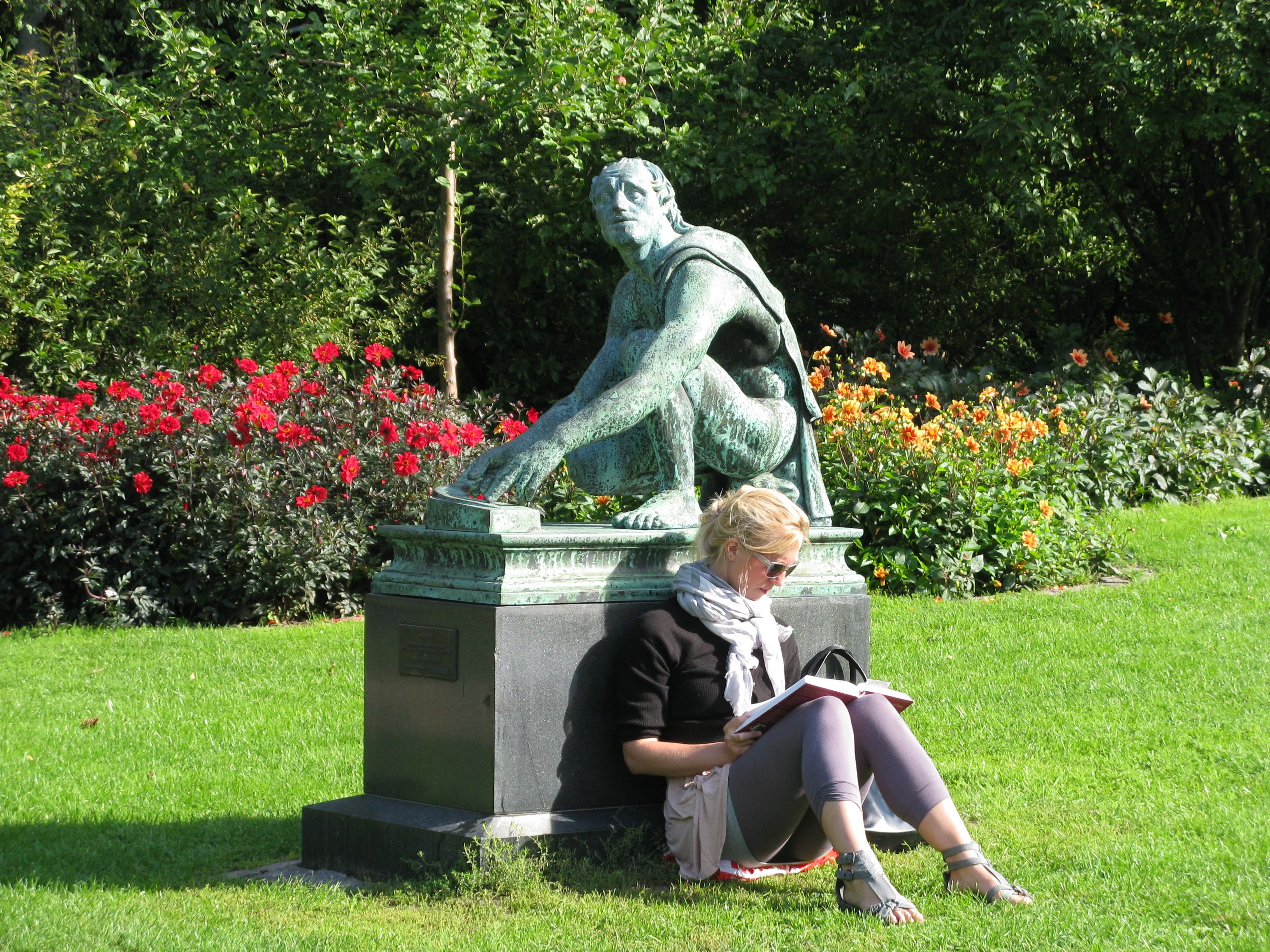 Statue of Arrotino at Ørstedsparken in Copenhagen.